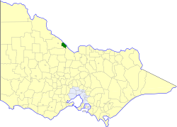 Location of the Shire of Cohuna within Victoria.